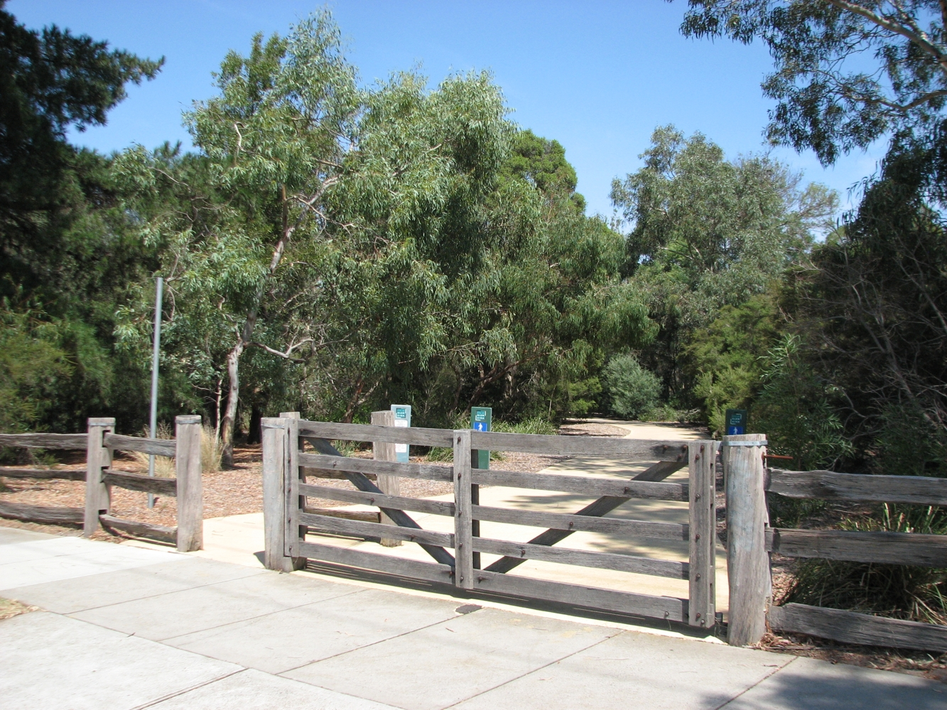 Entrance to Boyd Park, Murrumbeena, Victoria, Australia